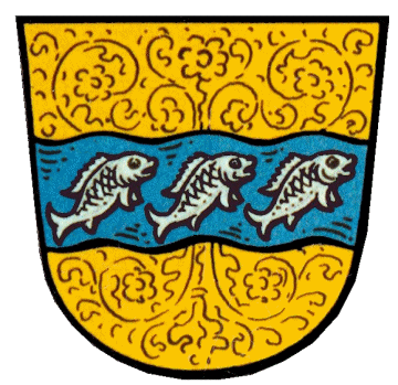 Coat of arms of Isselbach